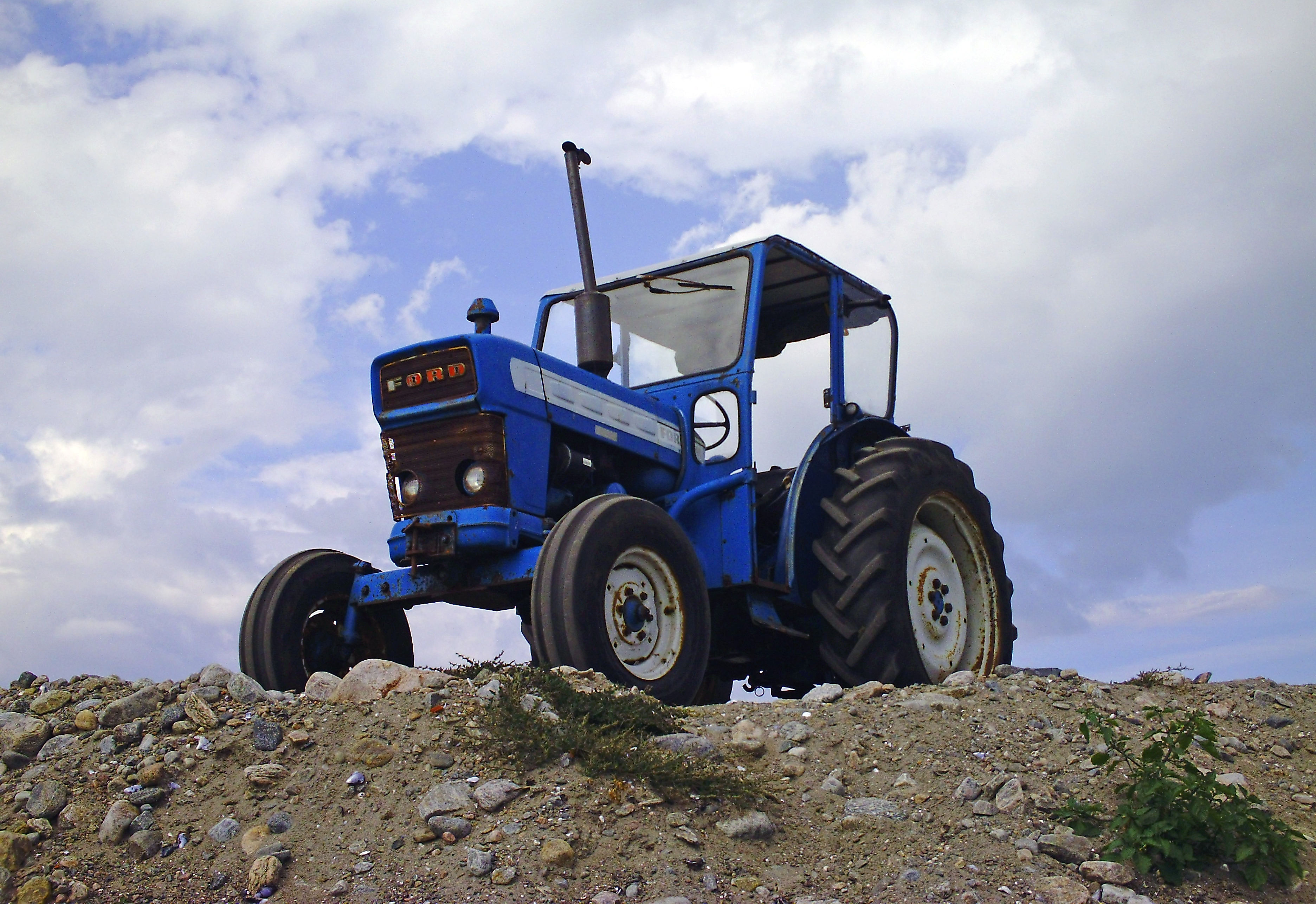 A Ford tractor on Vendelsö.